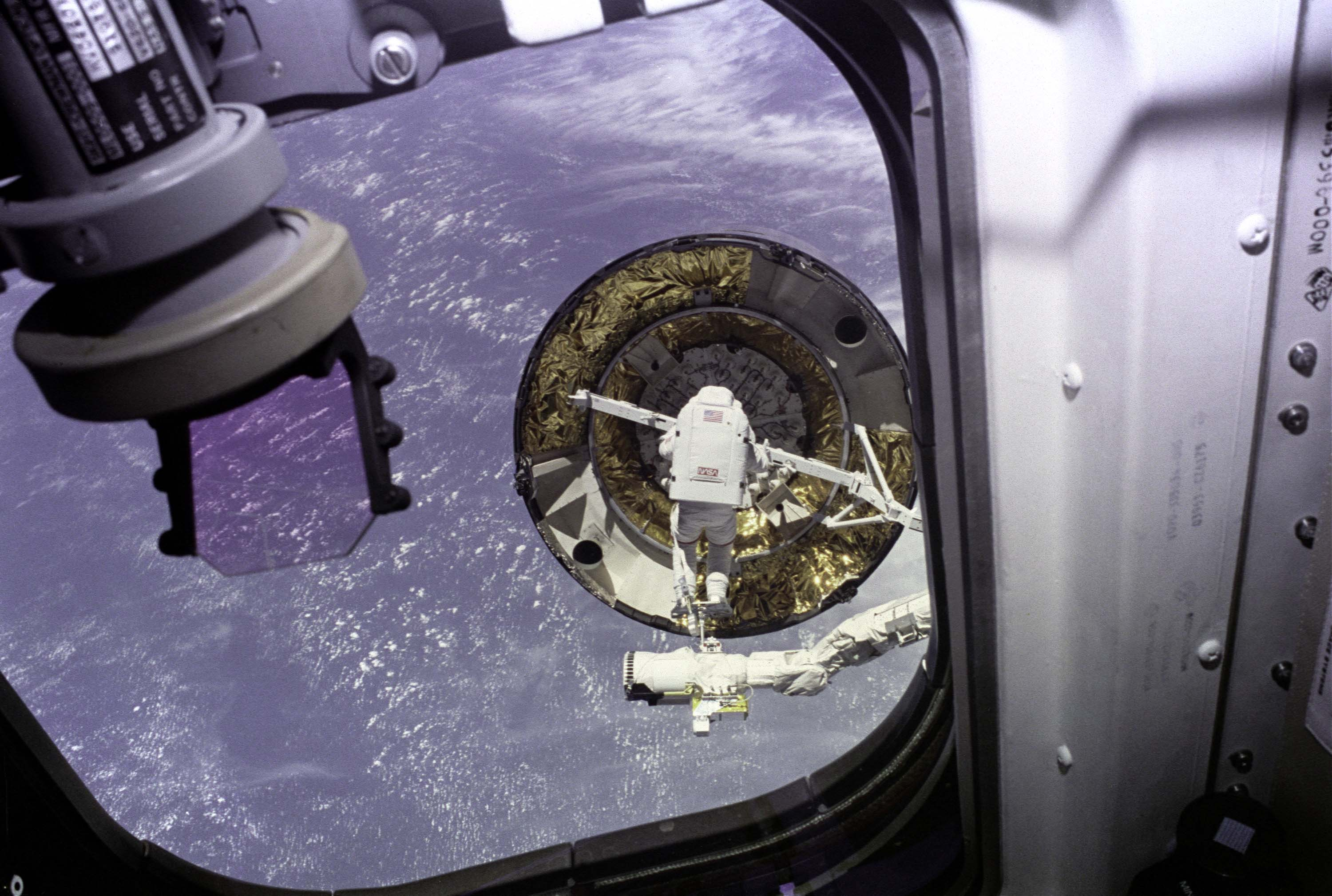 The first single crewmember EVA capture attempt of the Intelsat VI as seen from Endeavour's aft flight deck windows. EVA Mission Specialist Pierre Thuot standing on the Remote Manipulator System (RMS) end effector platform, with the satellite capture bar attempting to attach it to the free floating communications satellite.